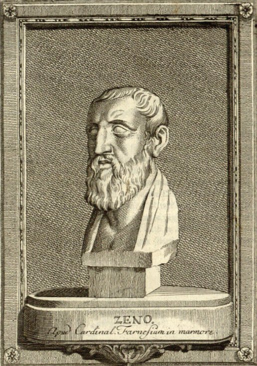 Zeno of Citium. Originally from the book Gallerie der alten Griechen und Römer sammt einer kurzen Geschichte ihres Lebens. Band 1: Philosophen by Georg Wilhelm Zapf, published in Augsburg by Gottlieb Friedrich Riedel in 1781.